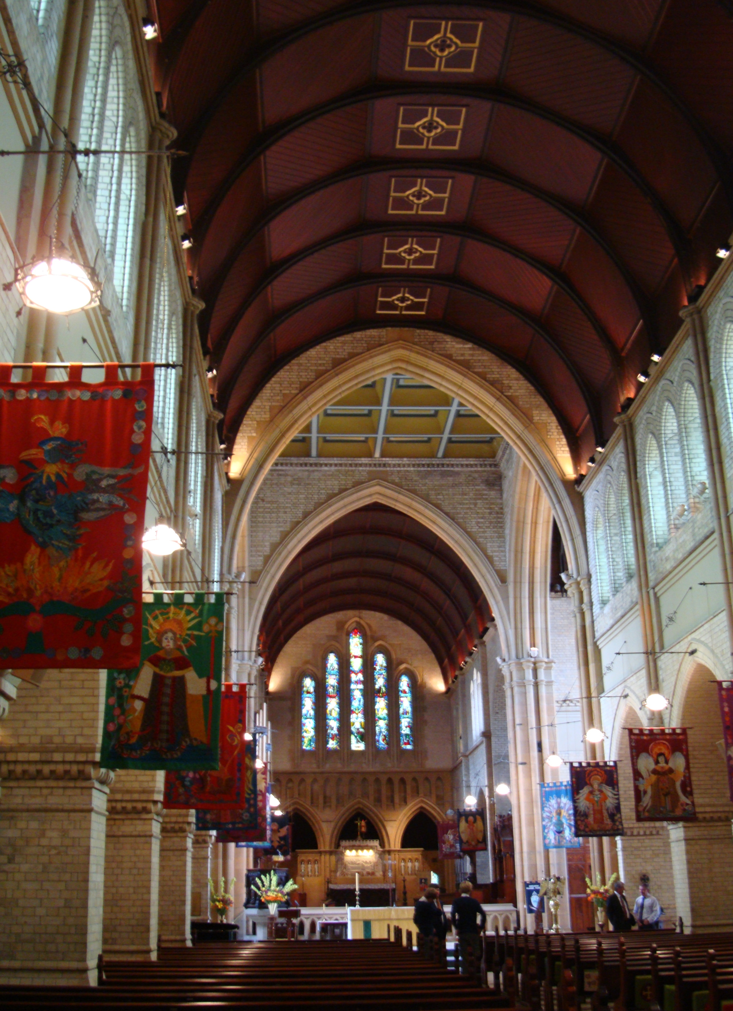 Photograph of the interior of Christ Church Cathedral, Newcastle, New South Wales, Australia